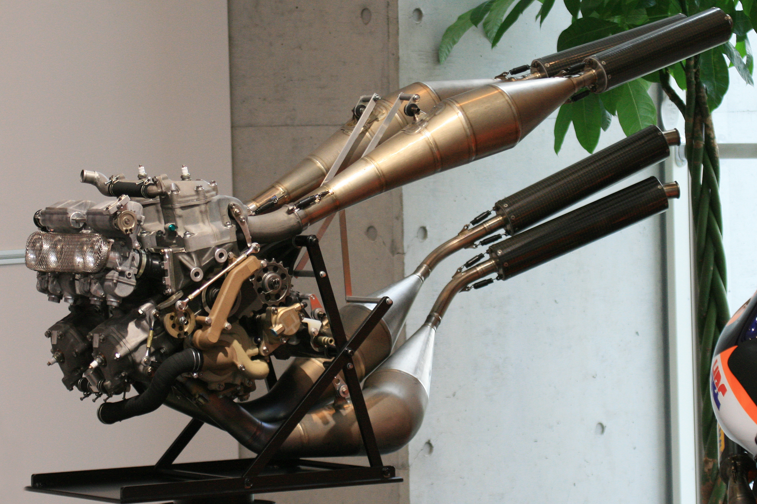 1997 Honda NSR500 engine Liquid-cooled 499.27cc V4 engine. 6-speed transmission. 185PS / 12,000rpm